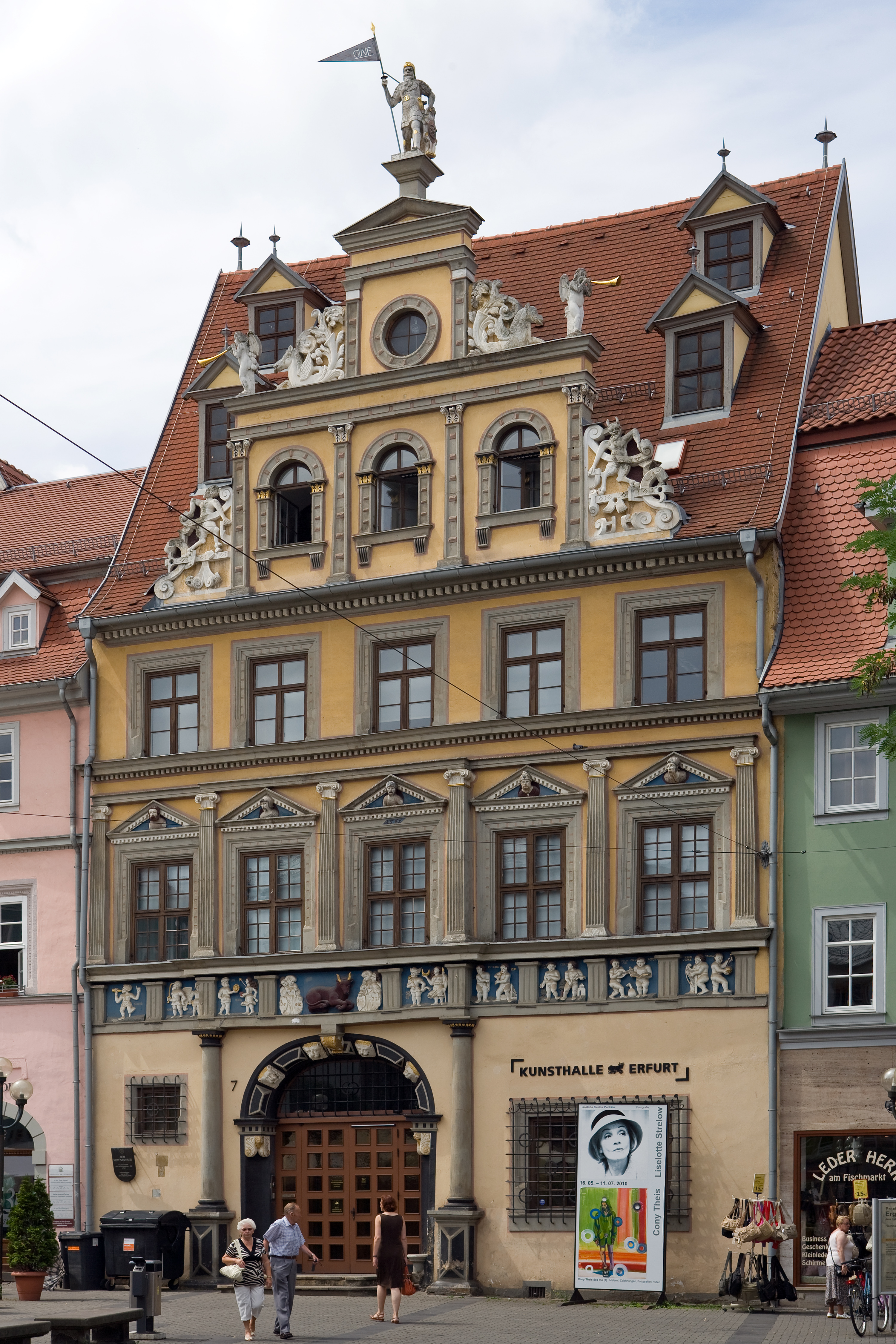 Erfurt: Haus zum Roten Ochsen (House to the Red Ox) as seen from the northeast